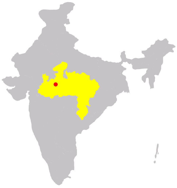 position of Bhopal in India